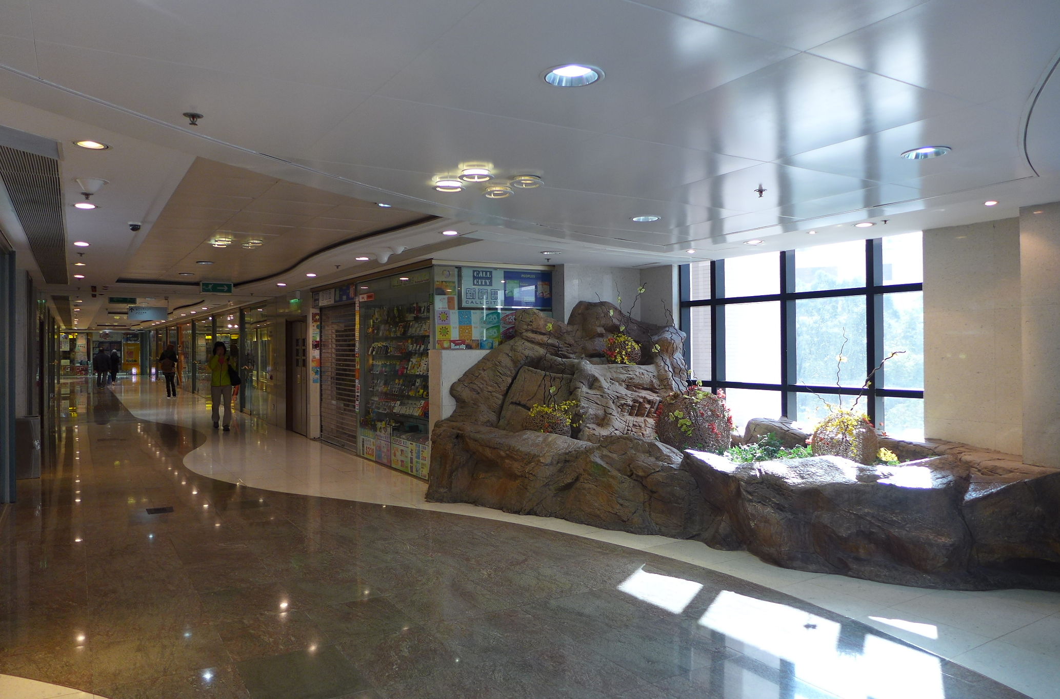 Sunshine City Plaza Level 2 access